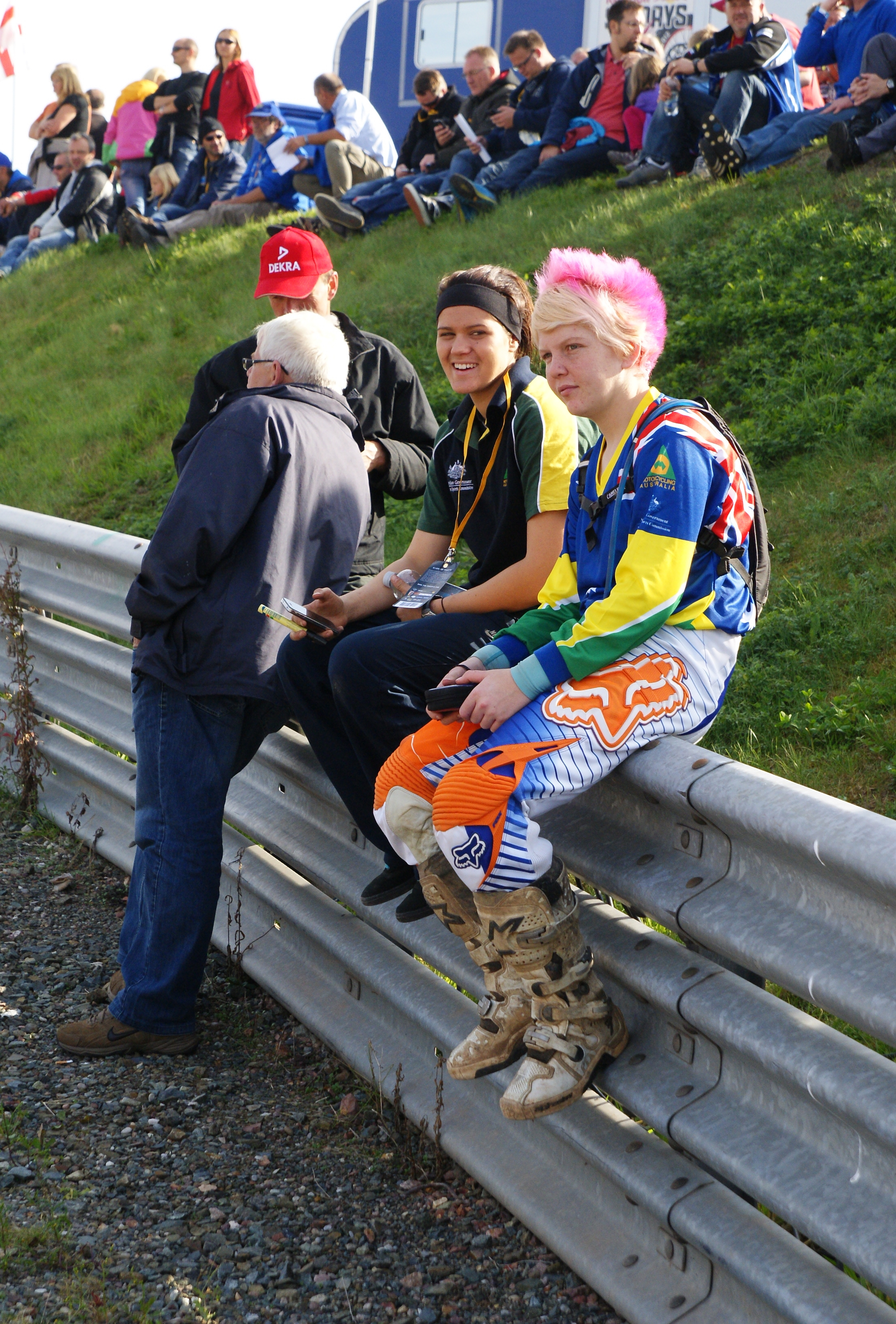 The making of this document was supported by the Community-Budget of Wikimedia Germany. Member of the Australian Womens Trophy Team Jessica Gardiner & Tayla Jones